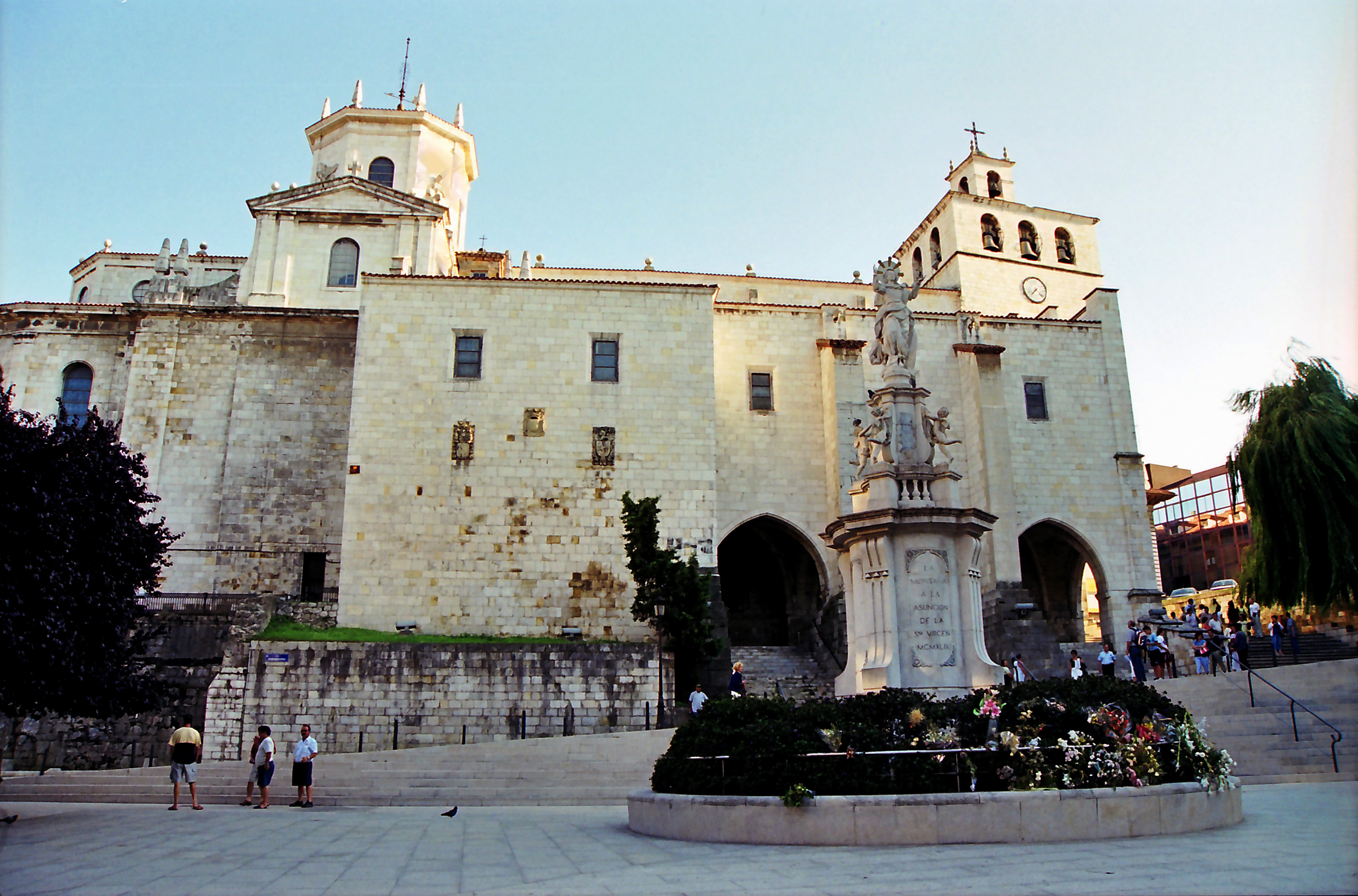 Cathedral of Santander (Cantabria, Spain).